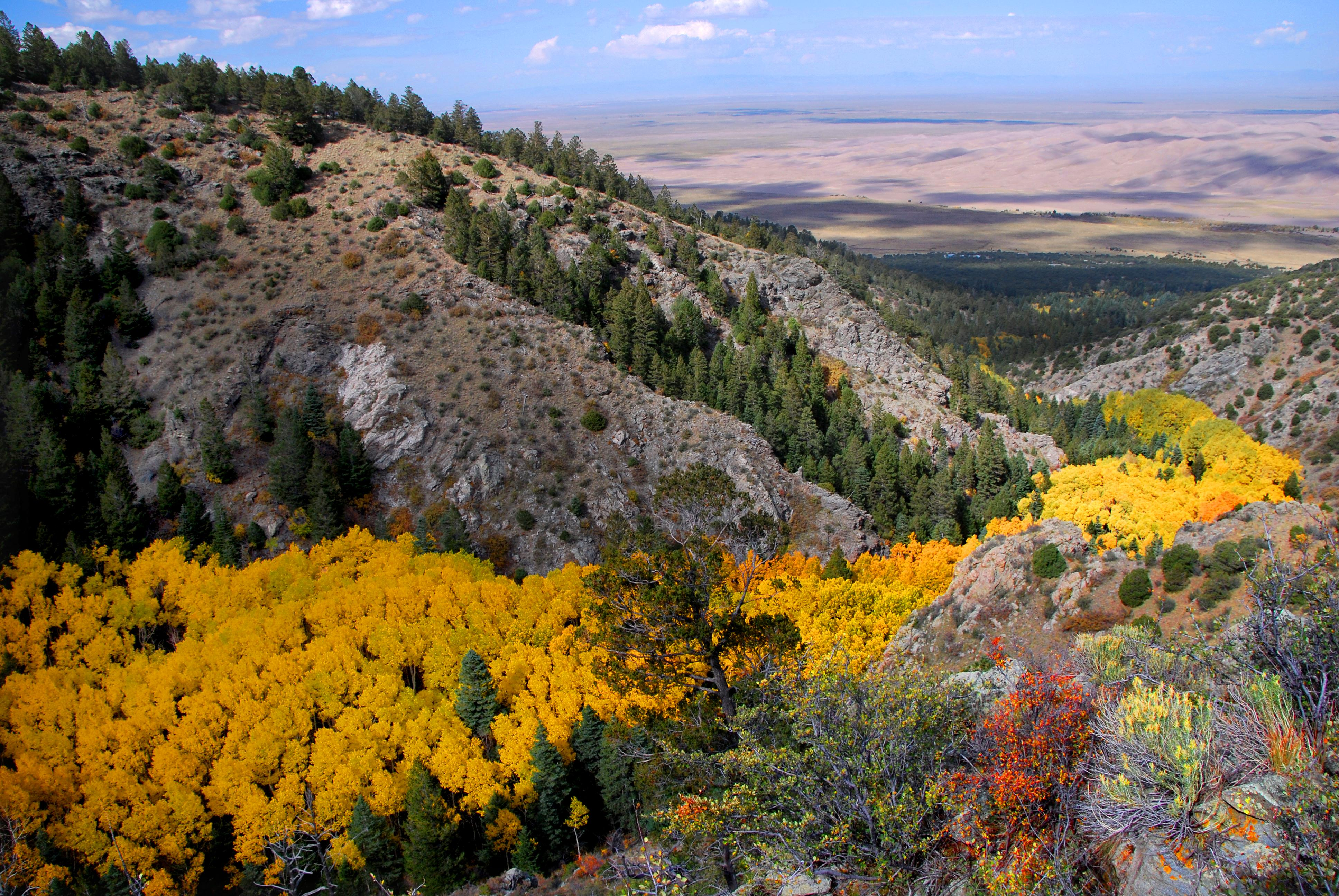 NPS/Patrick Myers